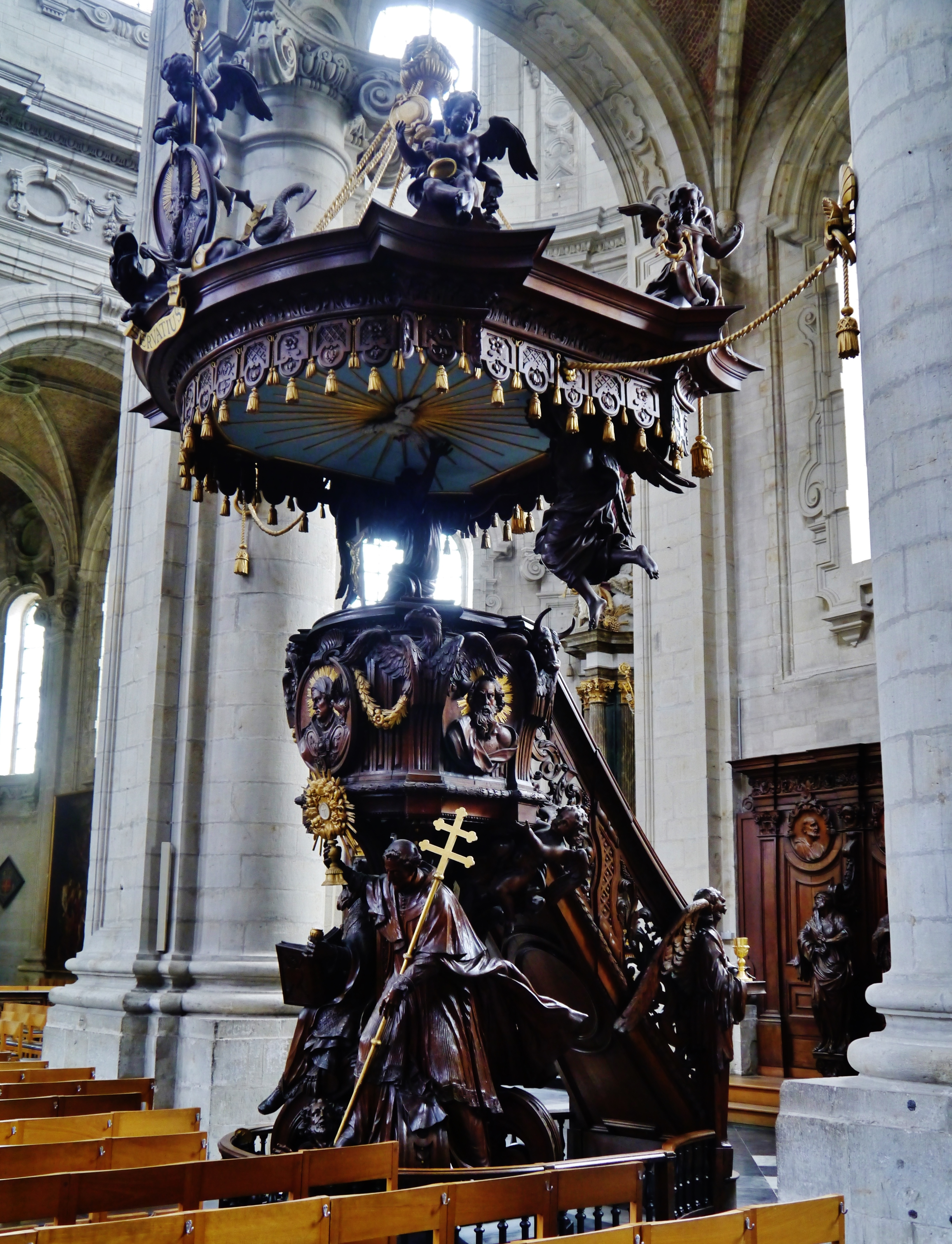 Pulpit of the Basilica St. Servatius, Grimbergen, Province of Flemish Brabant, Flanders, Belgium